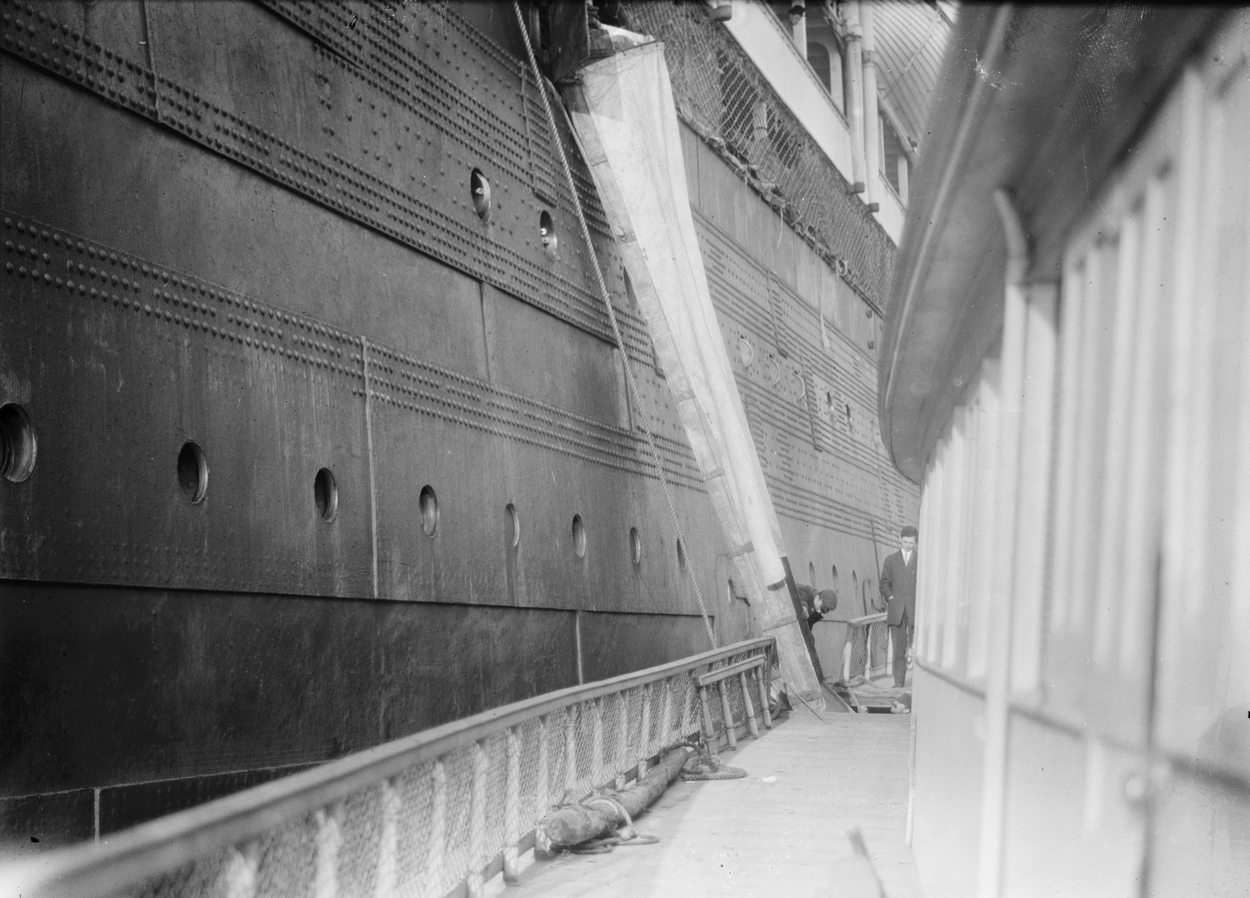 Unloading Christmas mail from RMS Lusitania onto a post office boat. Mail is dropped through a chute from Lusitanias deck. One of a series of photos of the process in the Bain collection.